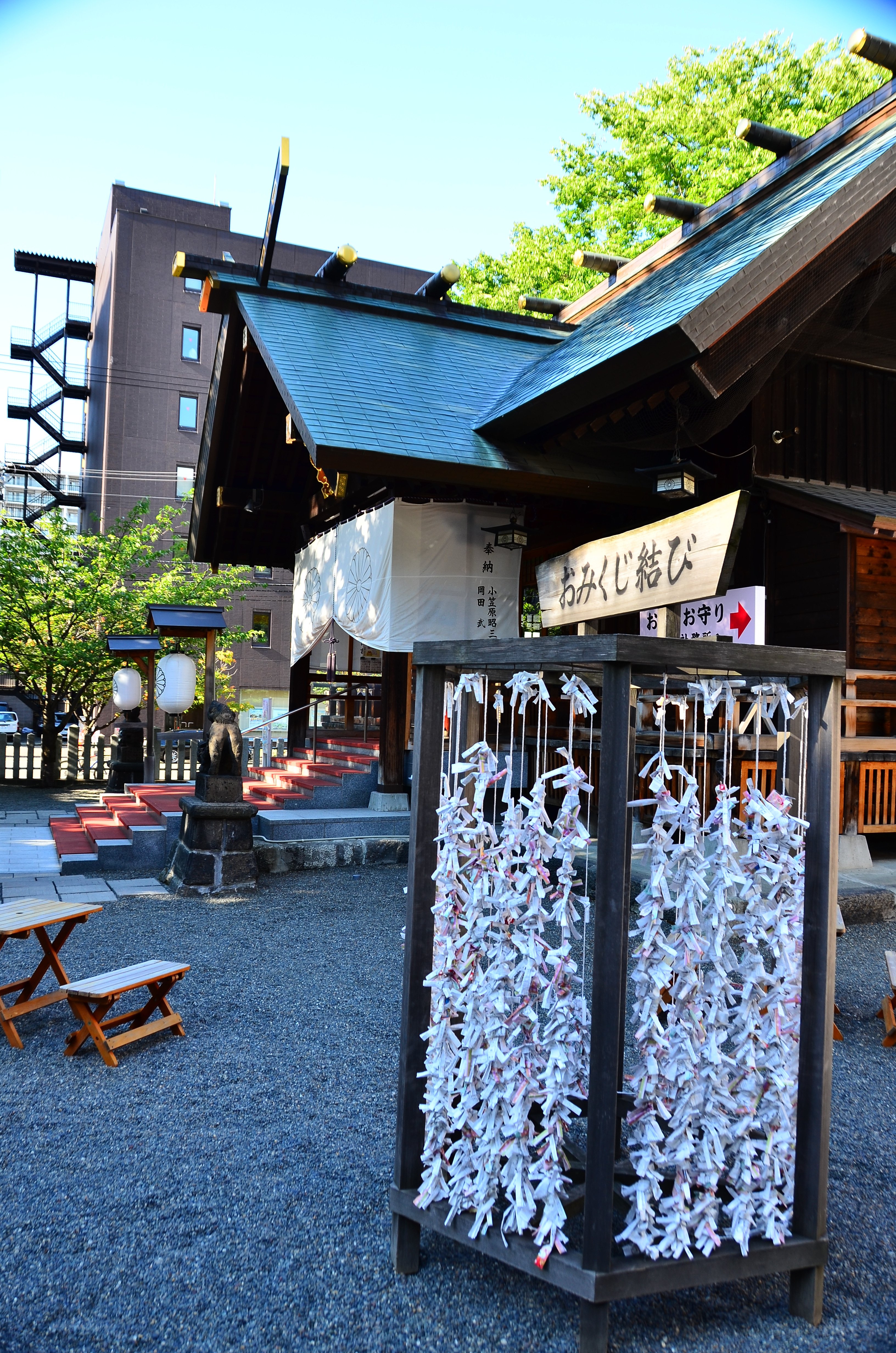 Hokkaido Shrine Tongu in Sapporo - O-mikuji (paper wishes)